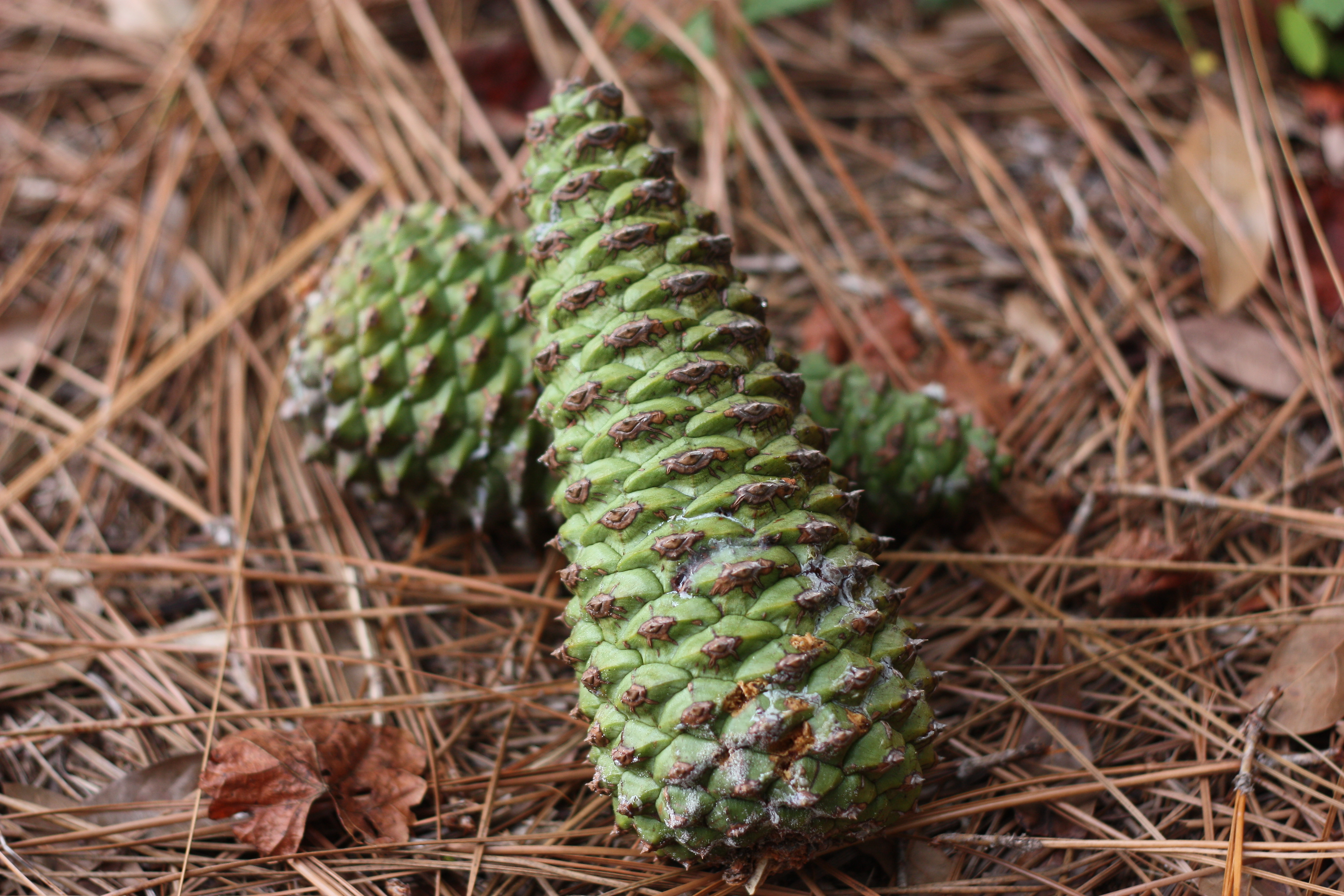 Pinus taeda (Loblolly Pine) cones